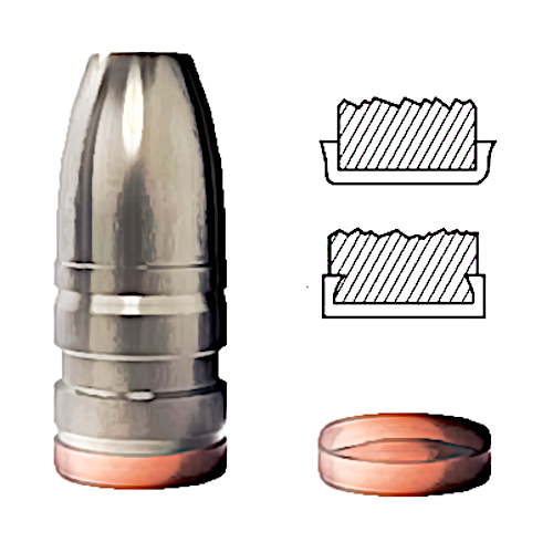 A gas checked cast bullet with a gas check apart and diagram